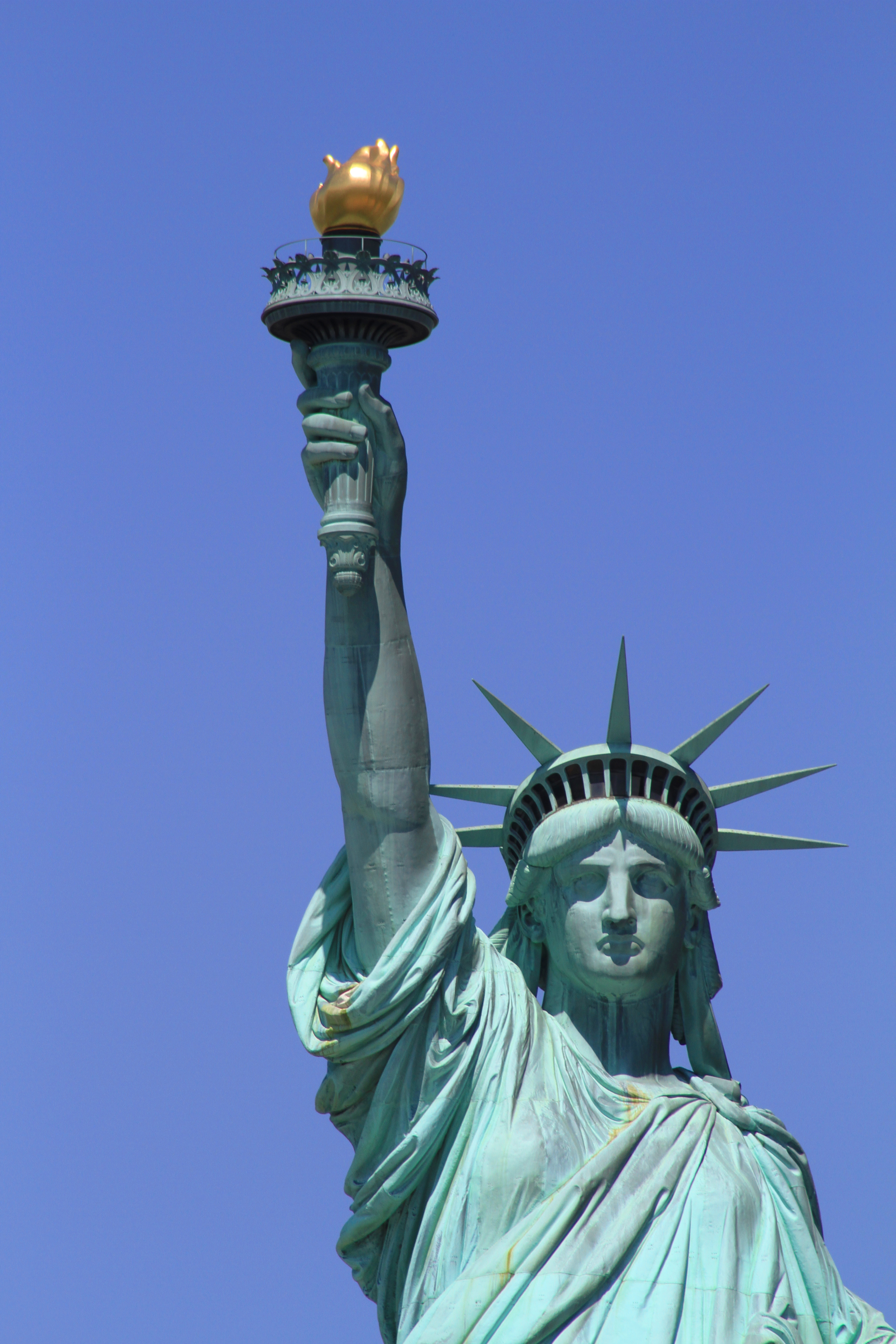 Statue of Liberty